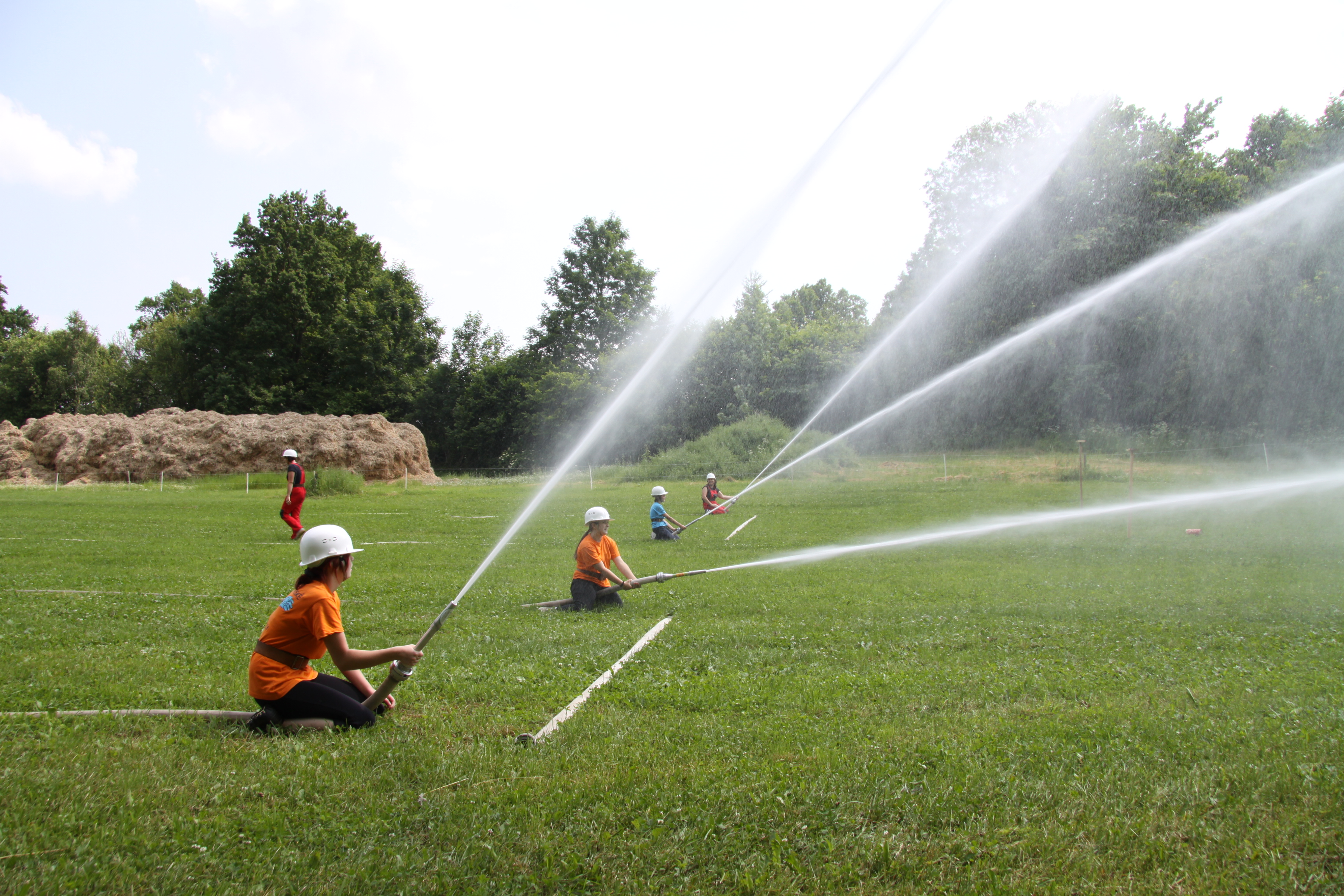 Firefighter games in Hrazany village, Písek District, Czech Republic - Google Maps - Google Earth